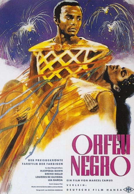 German movie poster for the film Black Orpheus (1959).